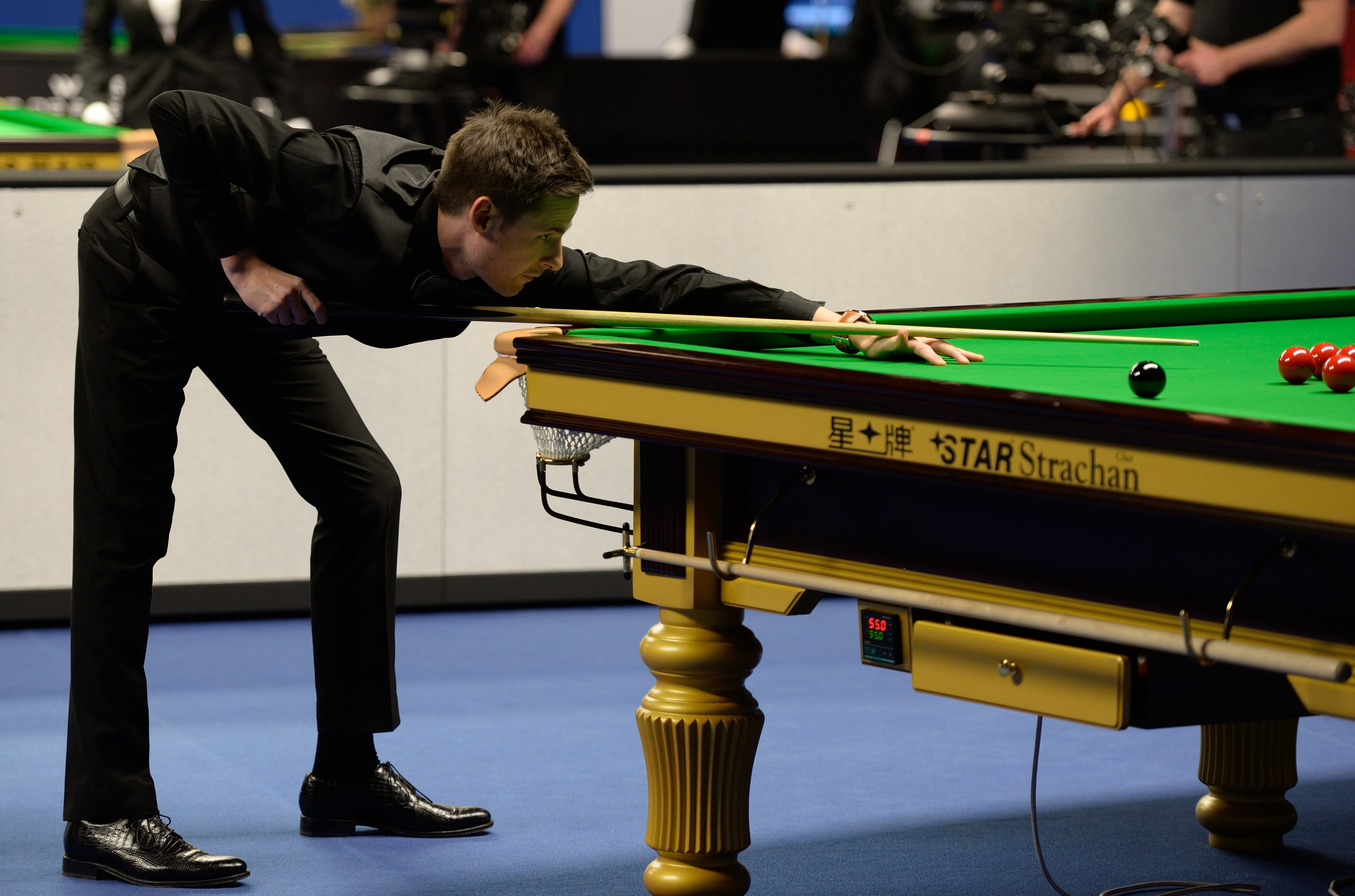 Picture taken in Berlin during the Snooker German Masters in 2015. David Gilbert.